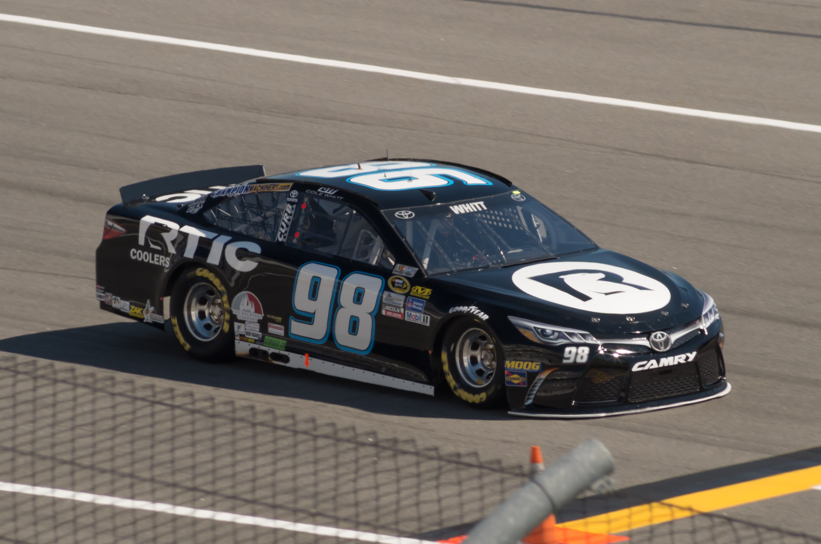 Cole Whitt